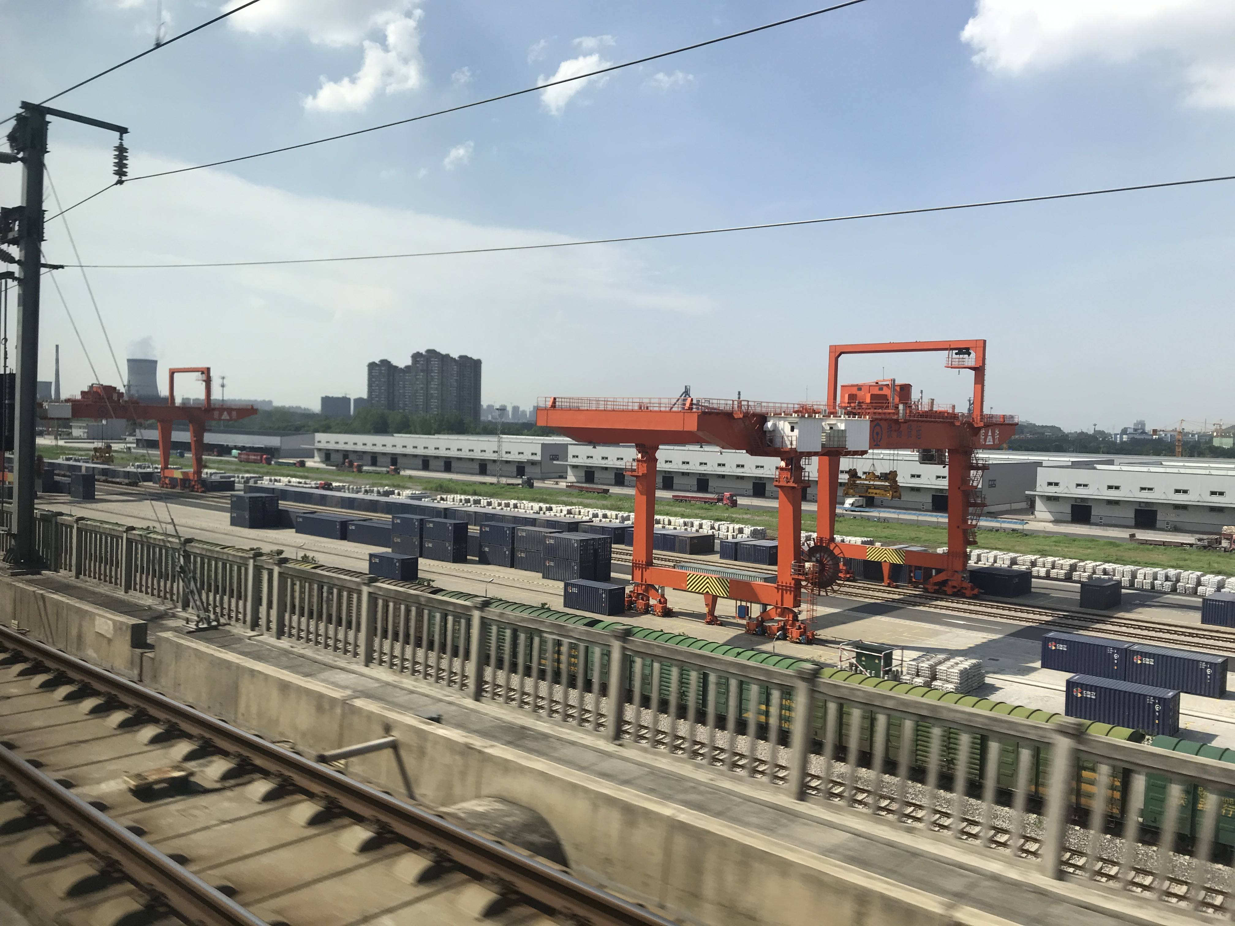 201806 Freight Yard of Hangzhoubei Station